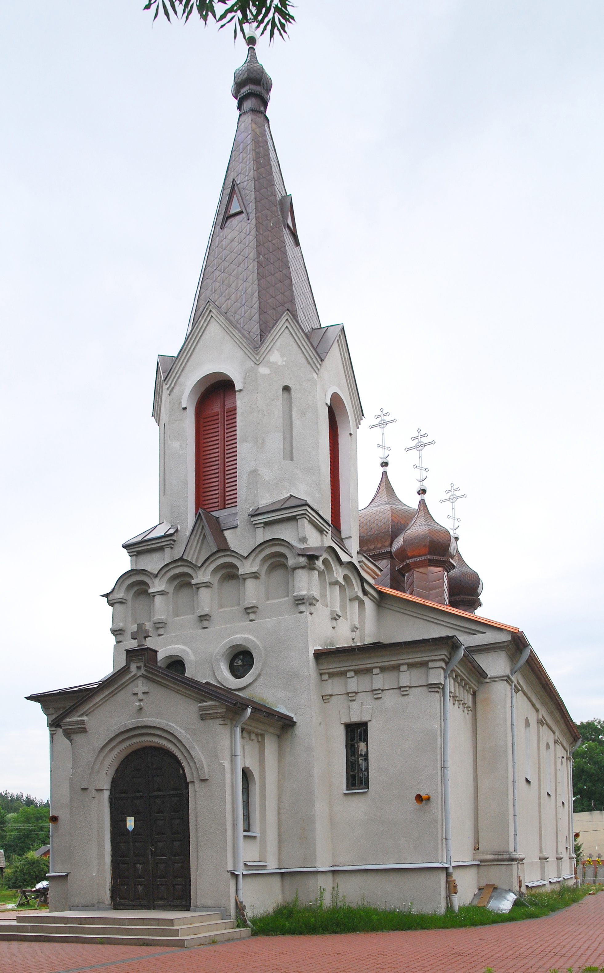 This photo from Podlaskie Voievodeship was taken during Polish Wikiexpedition 2009 set up by Wikimedia Polska Association. The making of this document was supported by Wikimedia Polska. Cerkiew Narodzenia Bogarodzicy w Mielniku